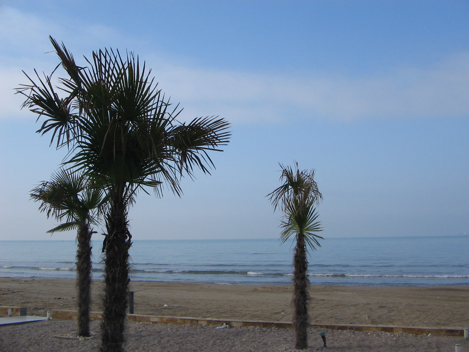 The Durrës seaside in Albania. 40 km from the capital Tirana